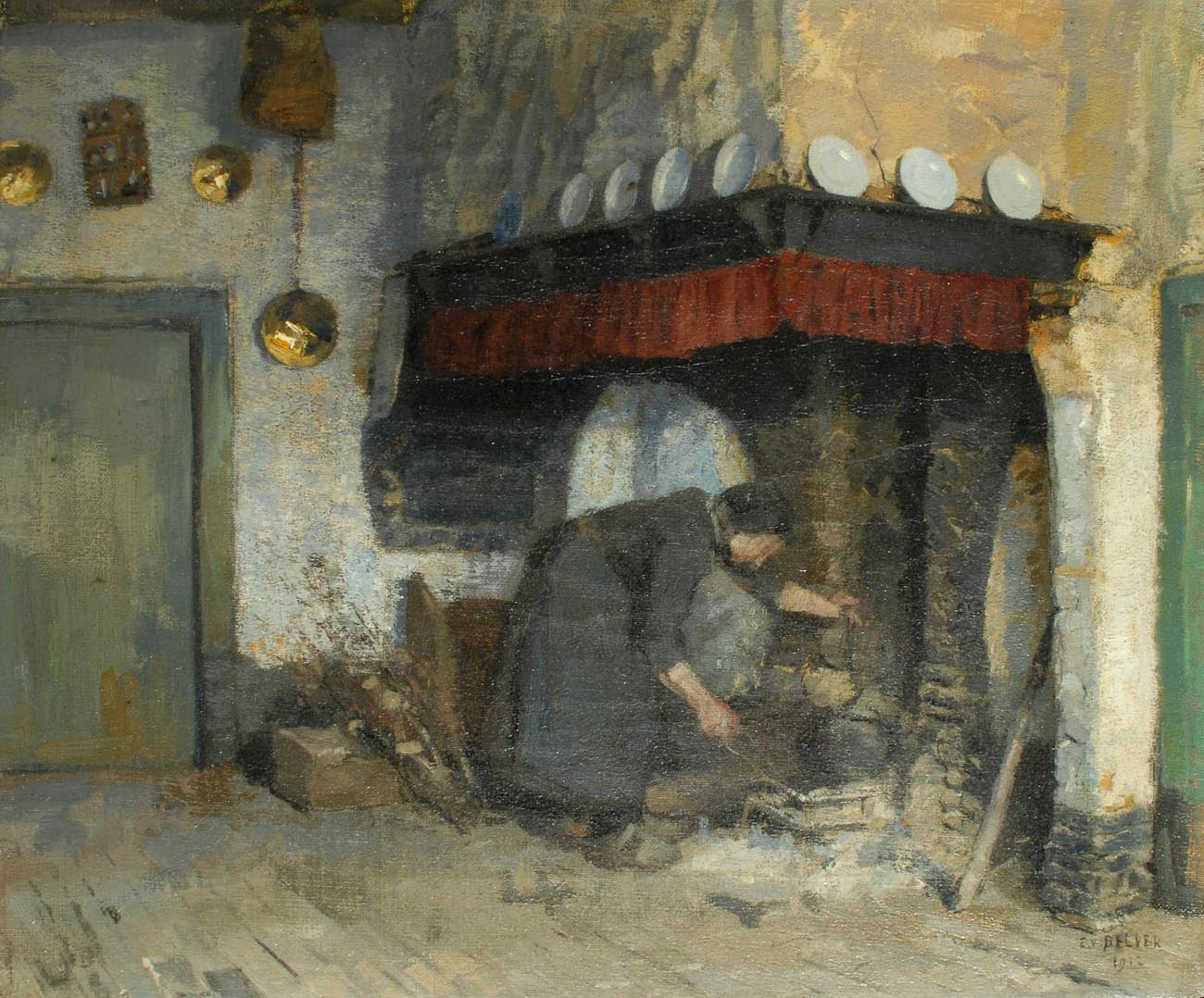 Emanuel van Beever, title unknown, 1912, oil on canvas